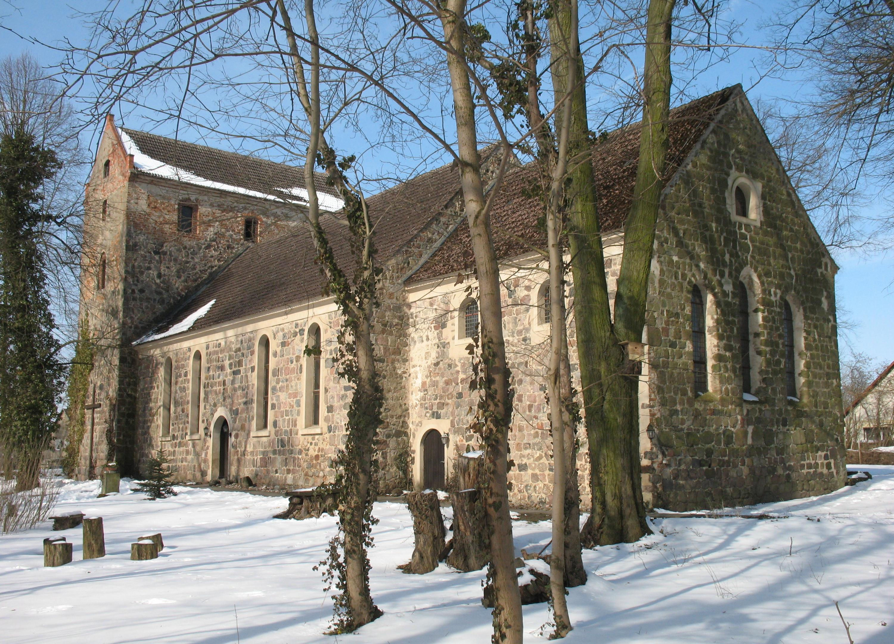 Church in Löwenberg (municipality Löwenberger Land) in Brandenburg, Germany